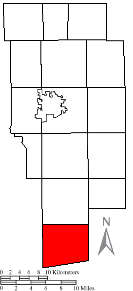 Originally created by the US Census. Modified by myself to highlight the township.